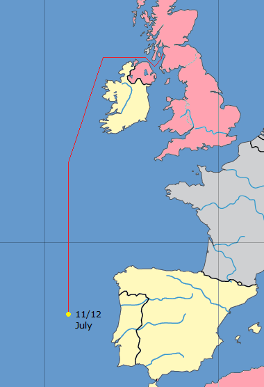 Route of Convoy Faith up to the time it was attacked by German aircraft on the night of 11/12 July 1943